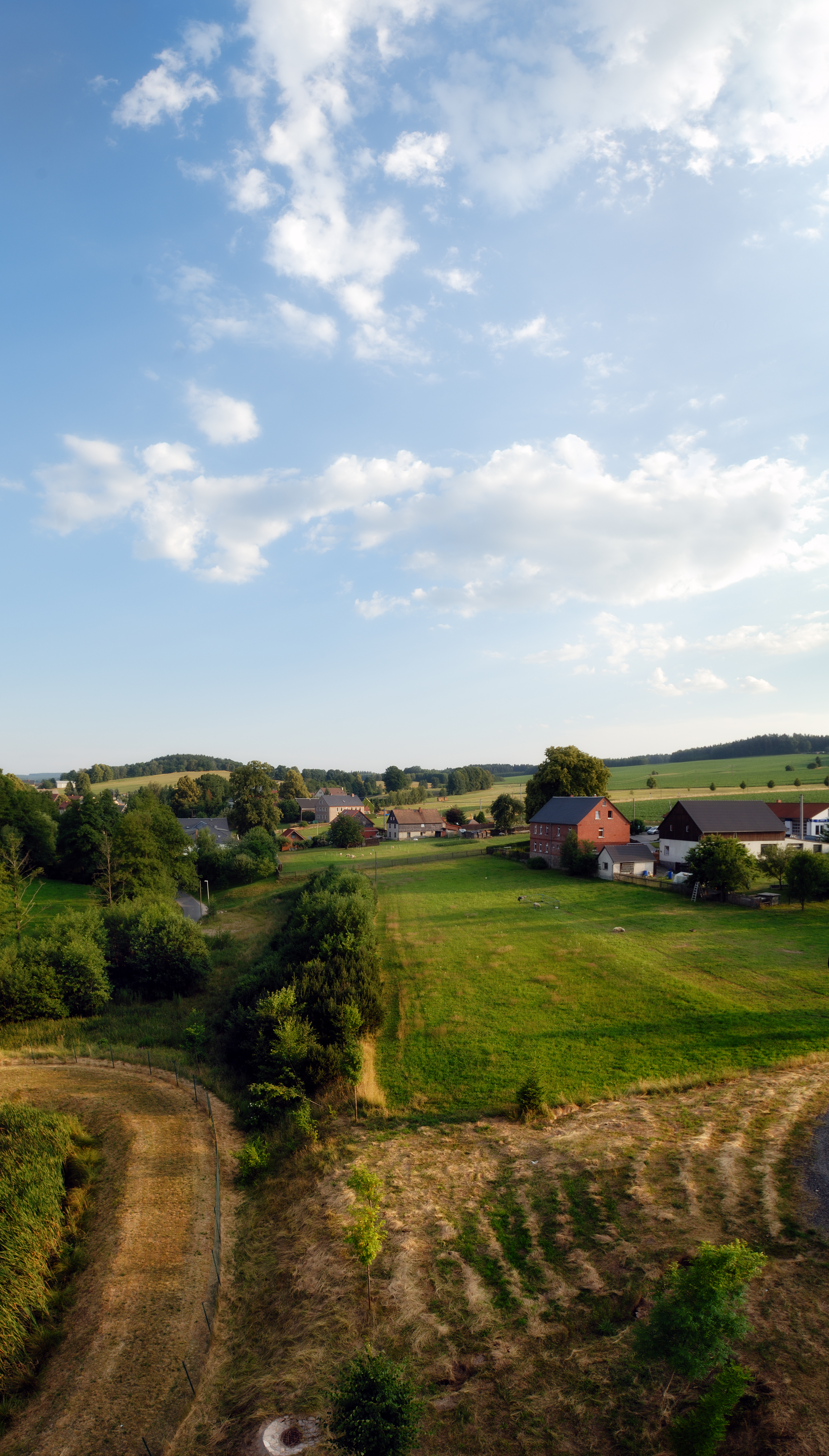 This image shows the district Wolfersgrün of the town Kirchberg in Saxony, Germany. It is a three segment panoramic image.